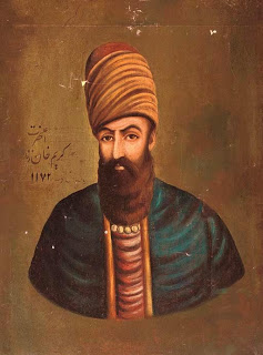 A painting of Karim Khan Zand by painter Muhammad Sadiq